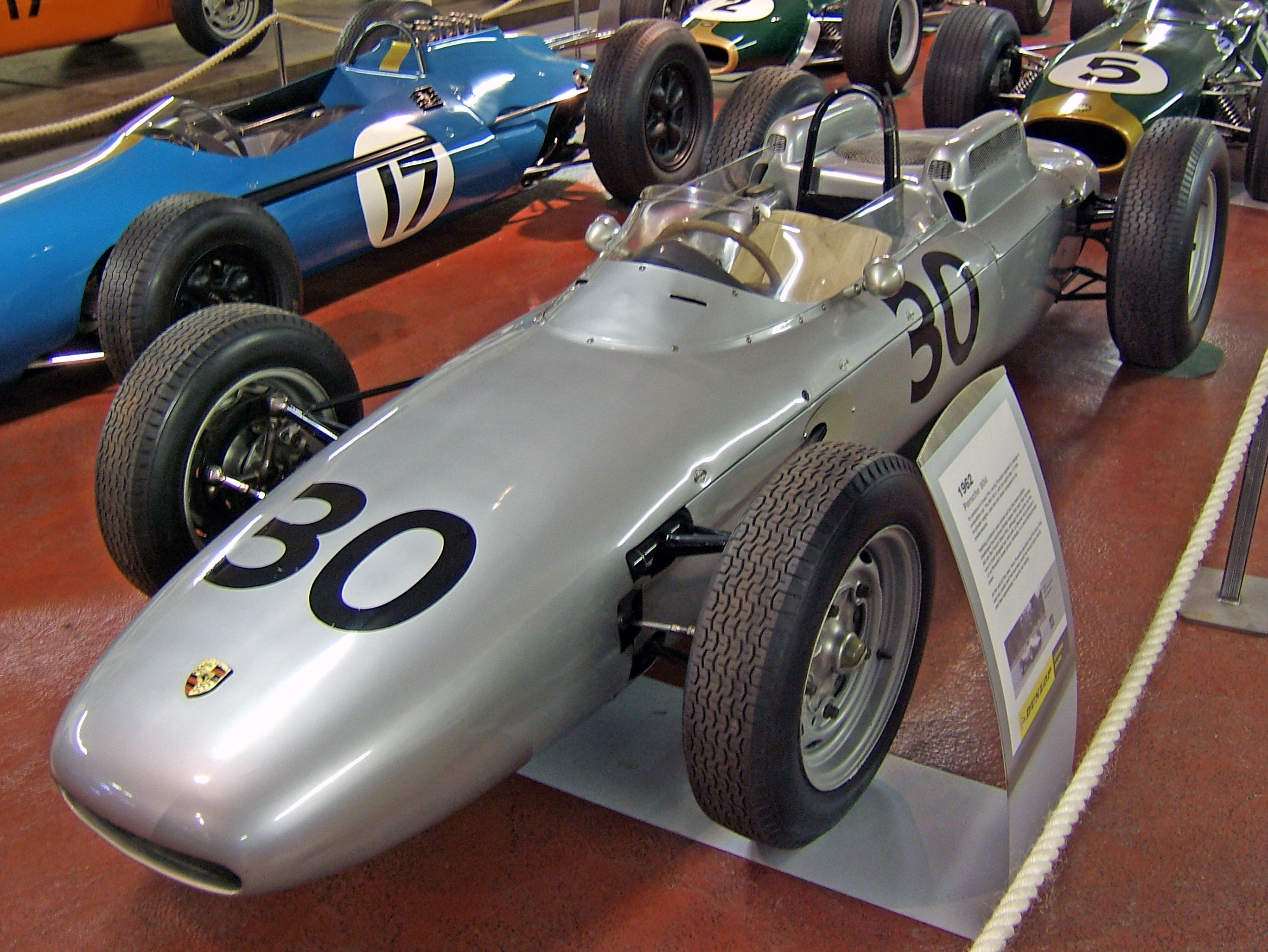 A Porsche 804 Formula One car of 1962. The only Porsche model to ever win a Formula One Grand Prix race, in the hands of Dan Gurney at the 1962 Franch Grand Prix. In the Donington Grand Prix Collection museum, Leics., UK.